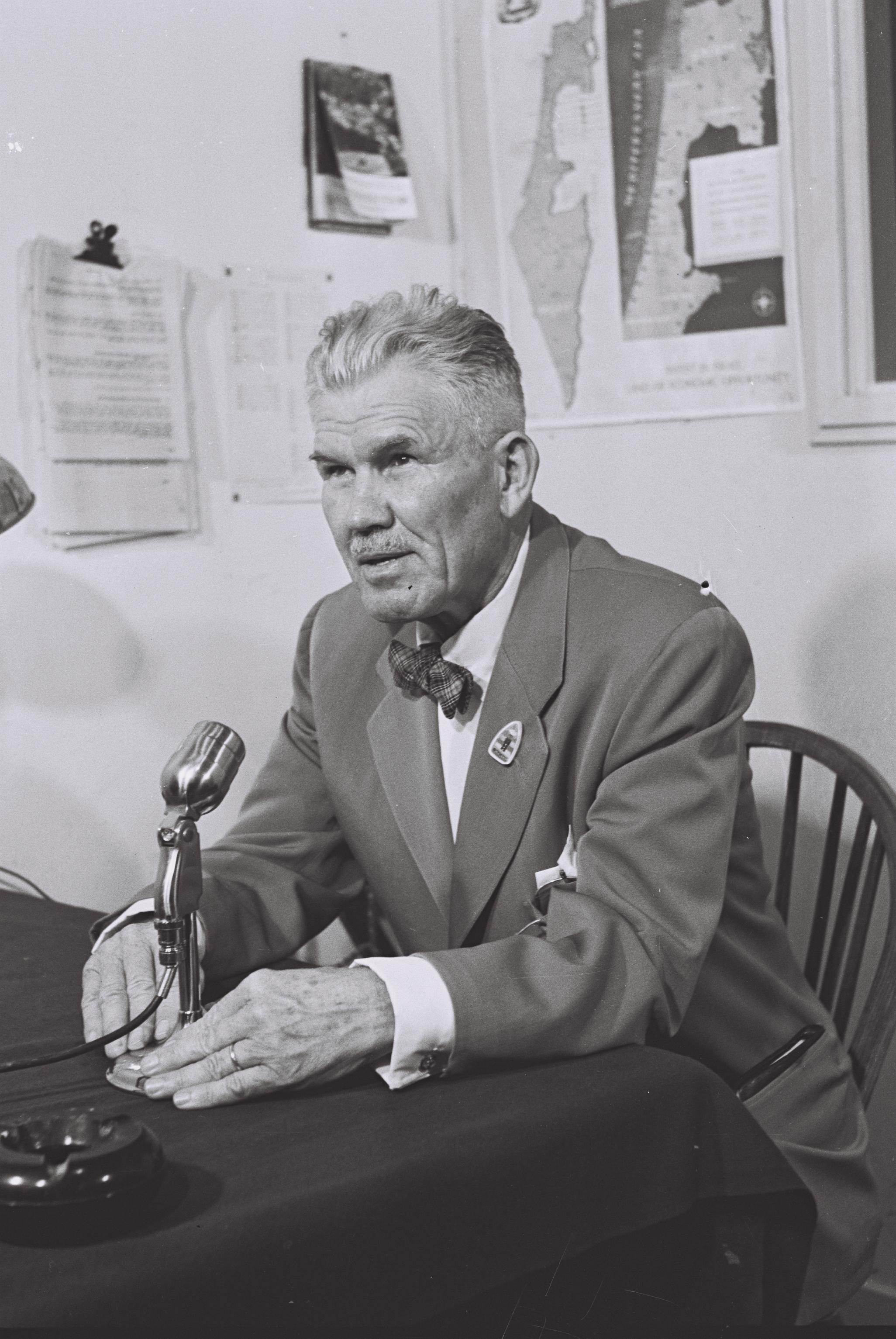 Walter C. Lowdermilk. PORTRAIT, DR. WALTER CLAY LOWDERMILK.